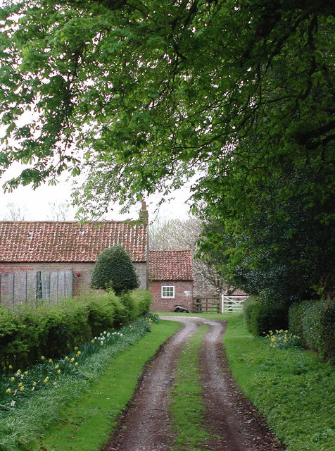 Elmswell, East Riding of Yorkshire, England.Looking south down the track to The Garden House and Hall Farm, east of Elmswell Hall.